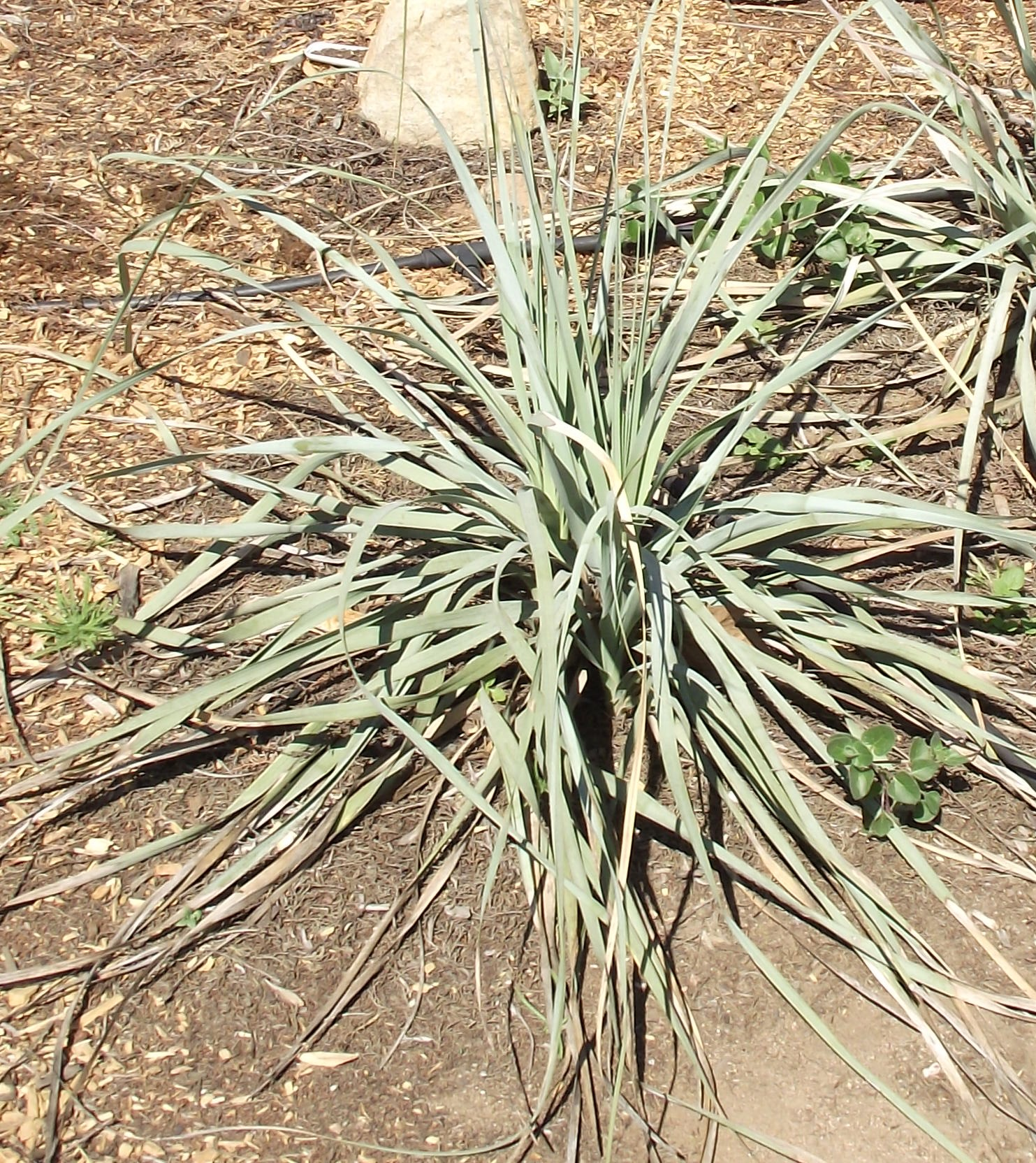 Nolina interrata at the San Diego Wild Animal Park, California, USA. Identified by sign.